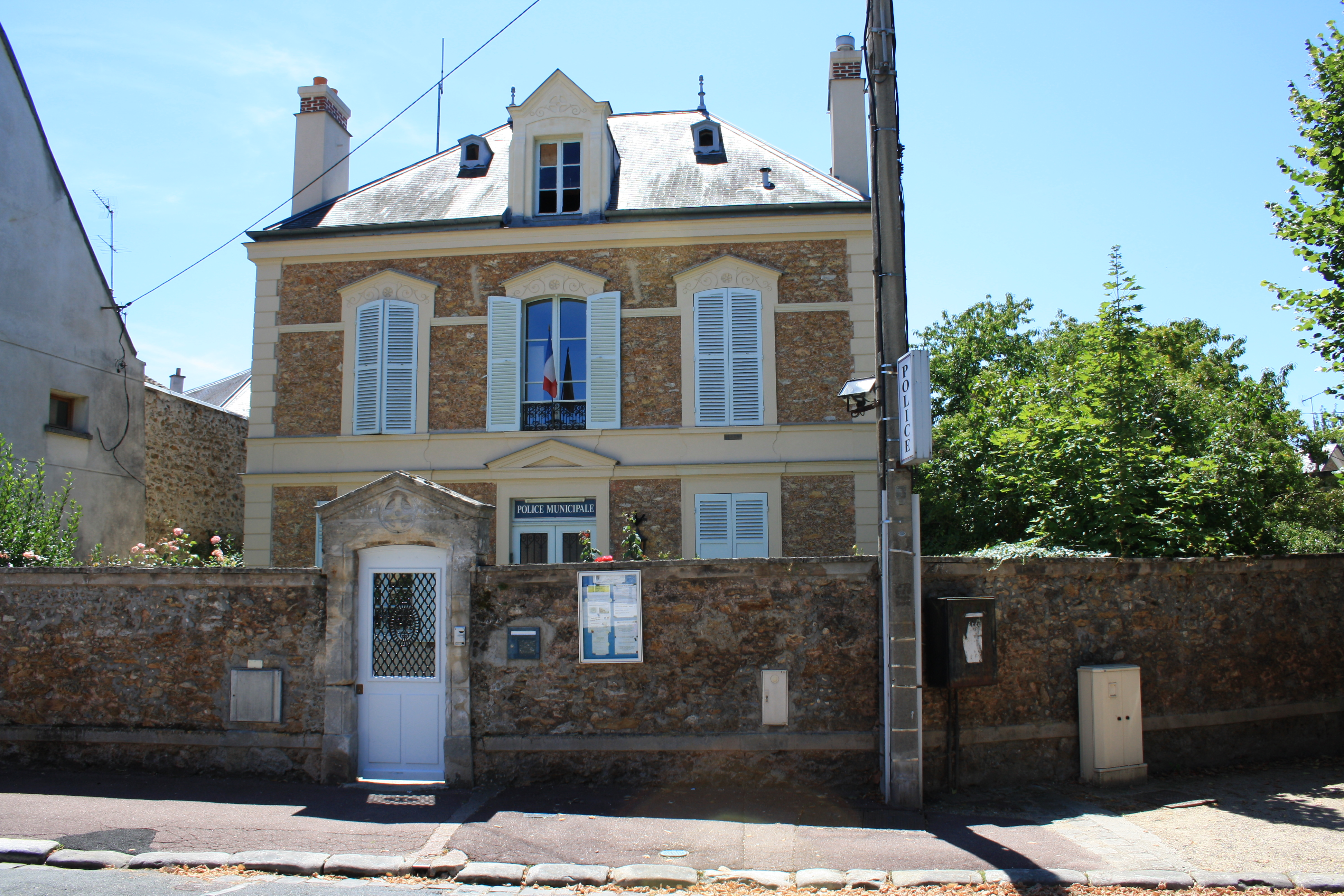 Police station of the city of Soisy-sur-Seine in France